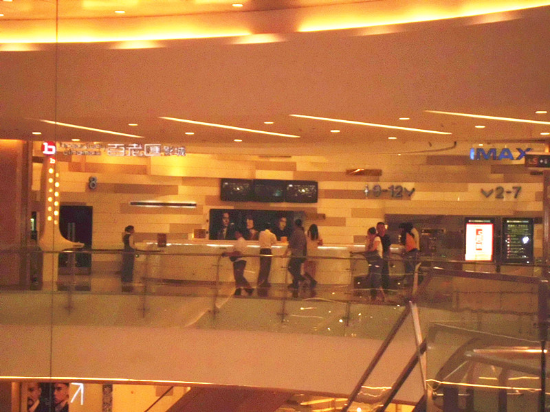 hzmixc